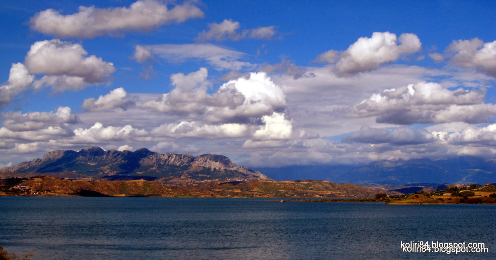 Pineios Dam-Ileia-Greece